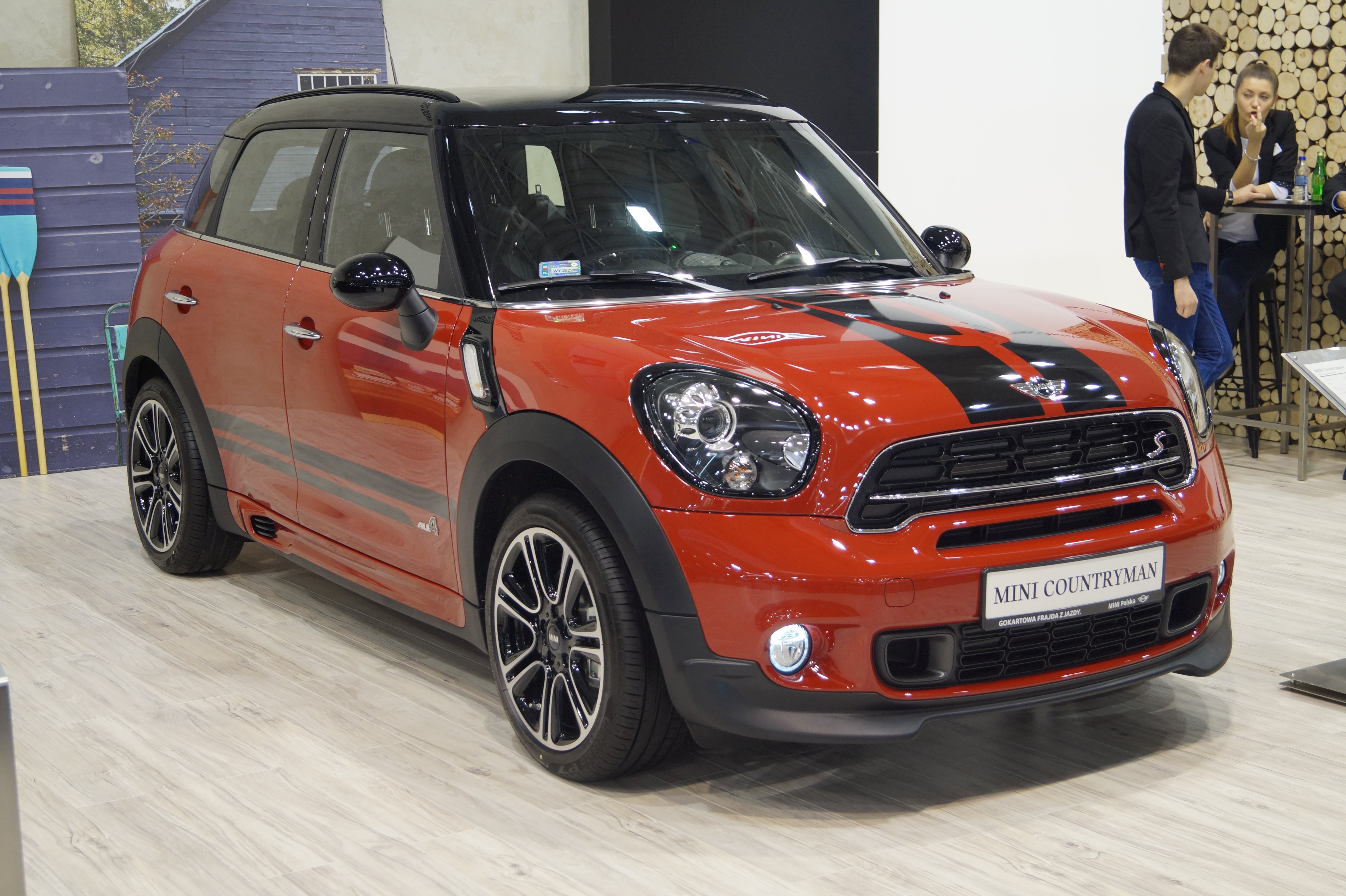 The making of this document was supported by Wikimedia Polska Association, within Wikigrant no. WG 2016-10. English | polski | +/− MINI Cooper S Countryman na Motor Show Poznań 2016